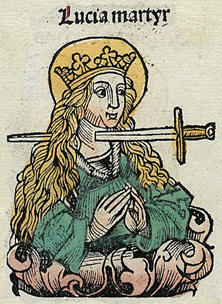 Illustration from the Nuremberg Chronicle